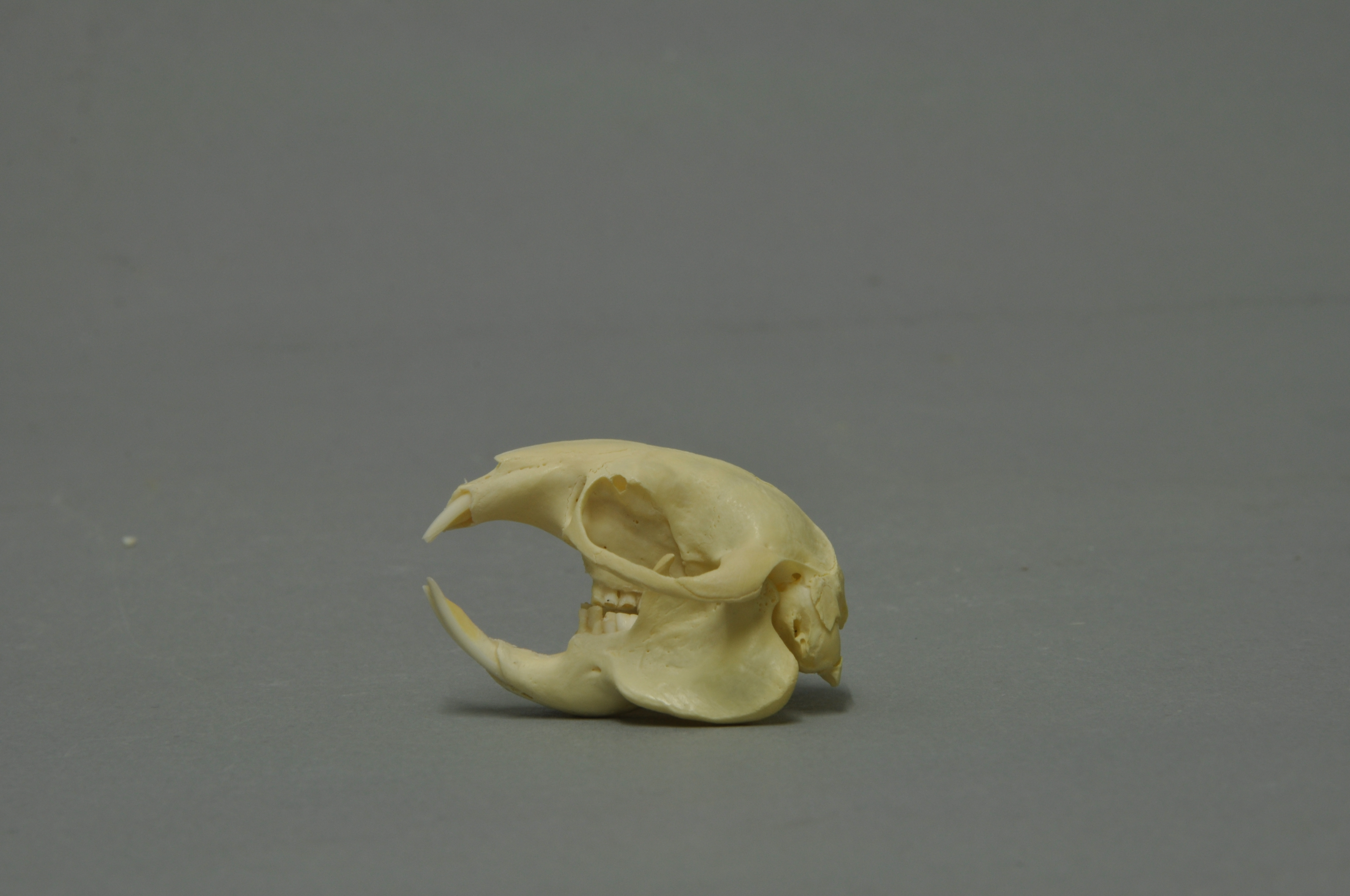 Silvery mole rat Heliophobius argenteocinereus, skull, Coll. Museum Wiesbaden